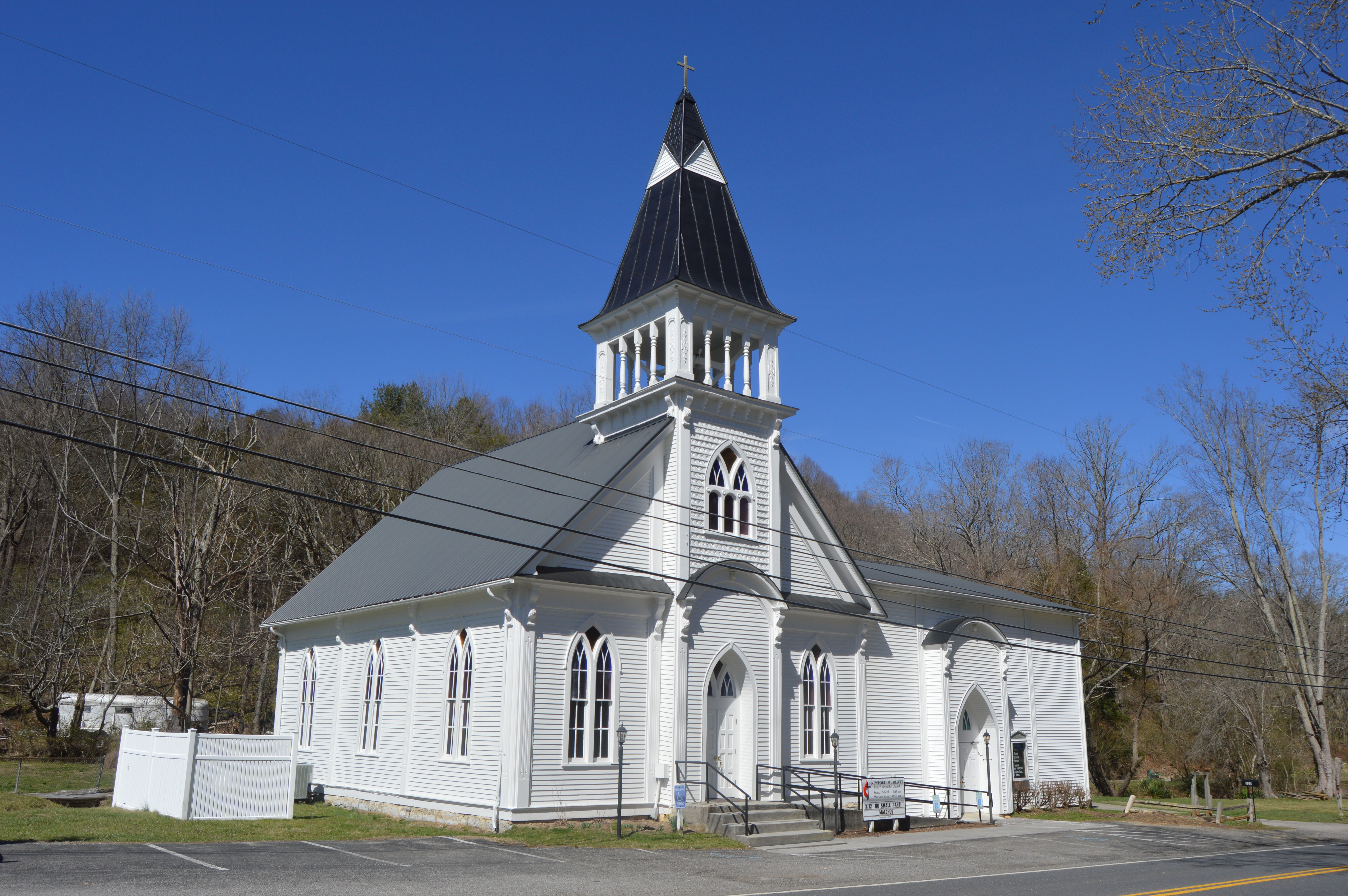 Front and southern side of the Newport-Mount Olivet United Methodist Church, located on State Route 42 at Newport in Giles County, Virginia, United States. Built in 1906, it is part of the Newport Historic District, a historic district that is listed on the National Register of Historic Places.